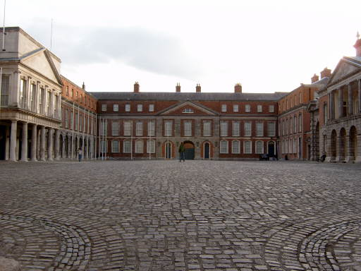 Image of Dublin Castle - no copyright, I took the picture. Photo by Jtdirl. Category:Castle images